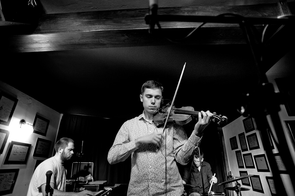 Mateusz Smoczynski, Jan Smoczynski, Alex Zinger in Jazz Cafe Łomianki, fot. Zosia Zija & Jacek Pióro